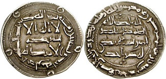 ISLAMIC DYNASTIES. Umayyads of Spain. Al-Hakim. 796-822 AD. AR Dirhem (27mm, 2.68 gm). al-Andalus (Cordoba) mint. Dated 191 AH (807 AD). Central Arabic legends surrounded by Arabic legends Central Arabic legends surrounded by Arabic legends; outer frame with five annulets. Album 341; MWI 317. Toned VF. From the T. R. McIntosh Collection.